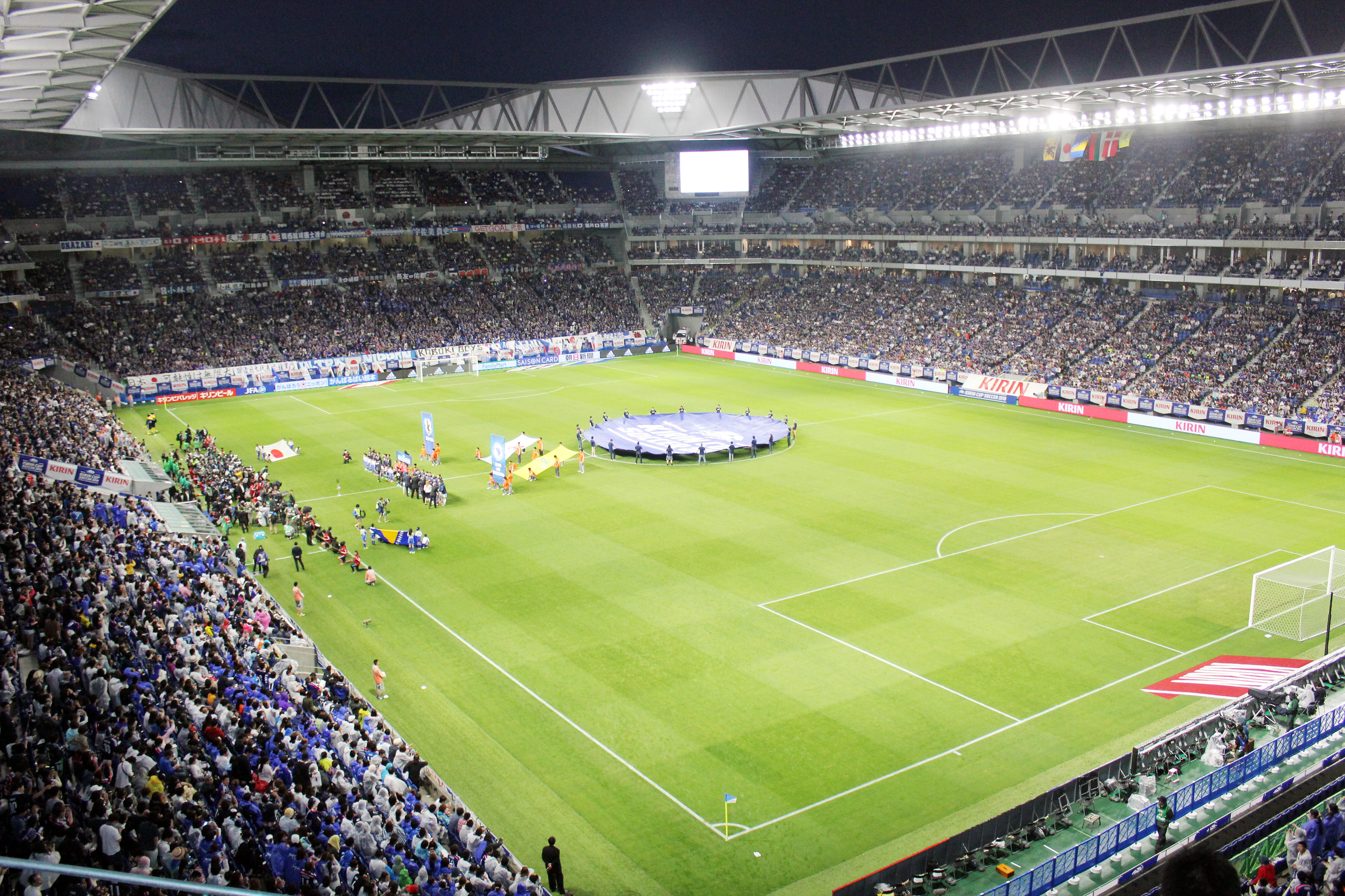 Municipal Suita Stadium